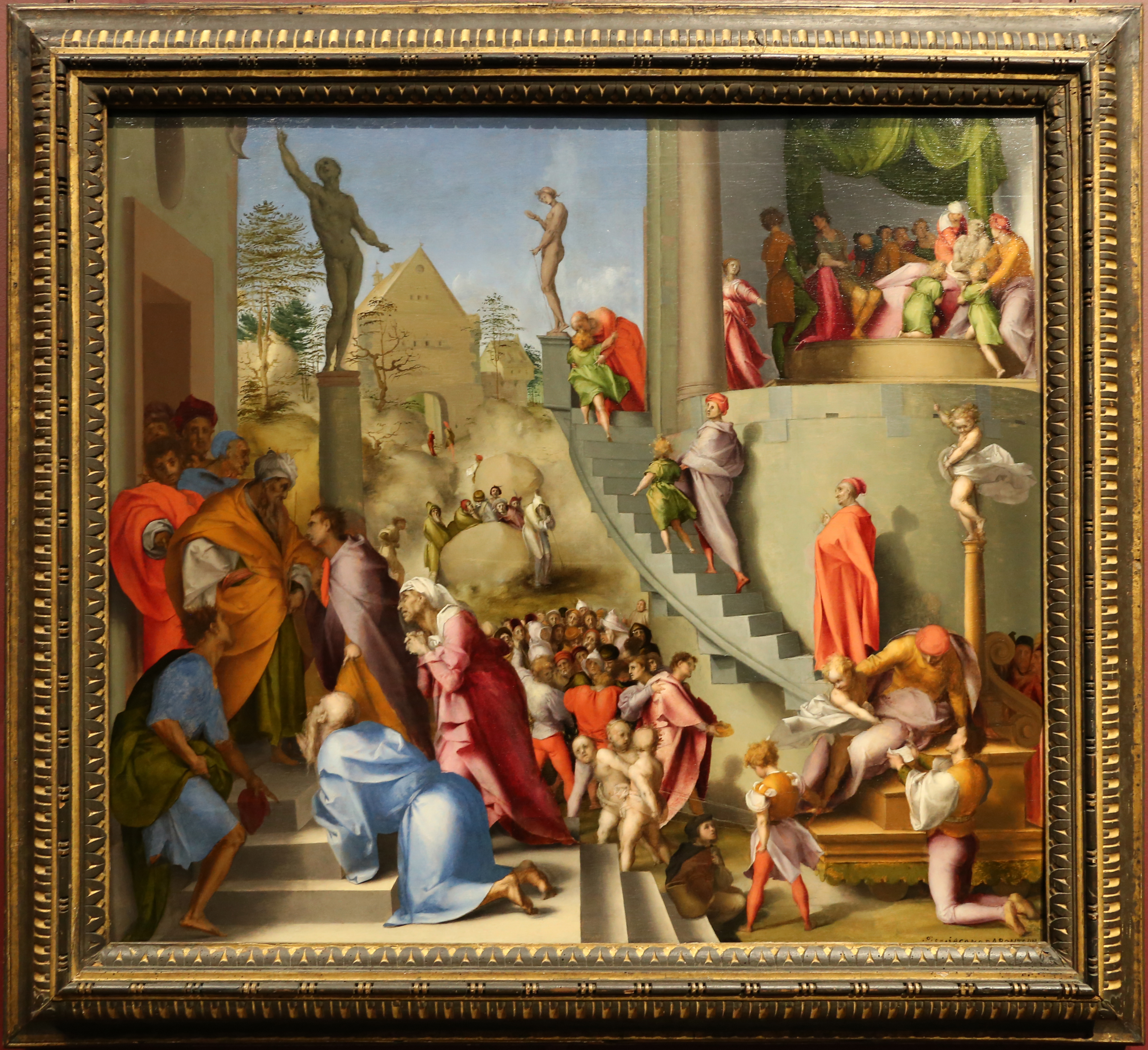 Paintings by Jacopo Pontormo in the National Gallery, London